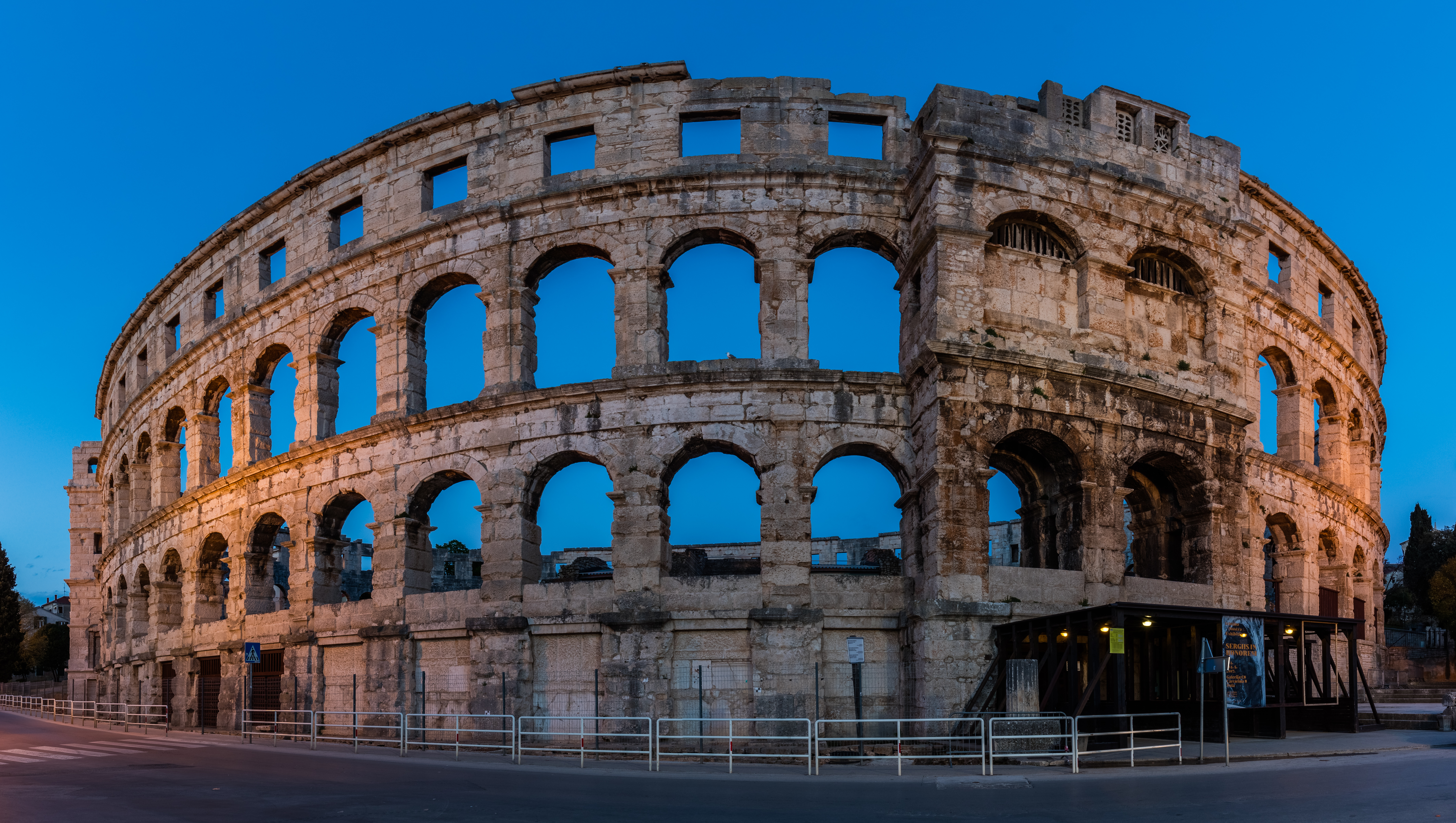 View of the exterior of the Pula Arena, an amphitheatre located in Pula, Croatia. This Roman edifice was constructed between 27 BC and 68 AD and is among the largest surviving Roman arenas in the world. At the same time, is the best preserved ancient monument in Croatia and the only remaining amphitheater having all four side towers with all three Roman architectural orders entirely preserved. This is a a photo of a cultural heritage in Croatia with ID: Z-863